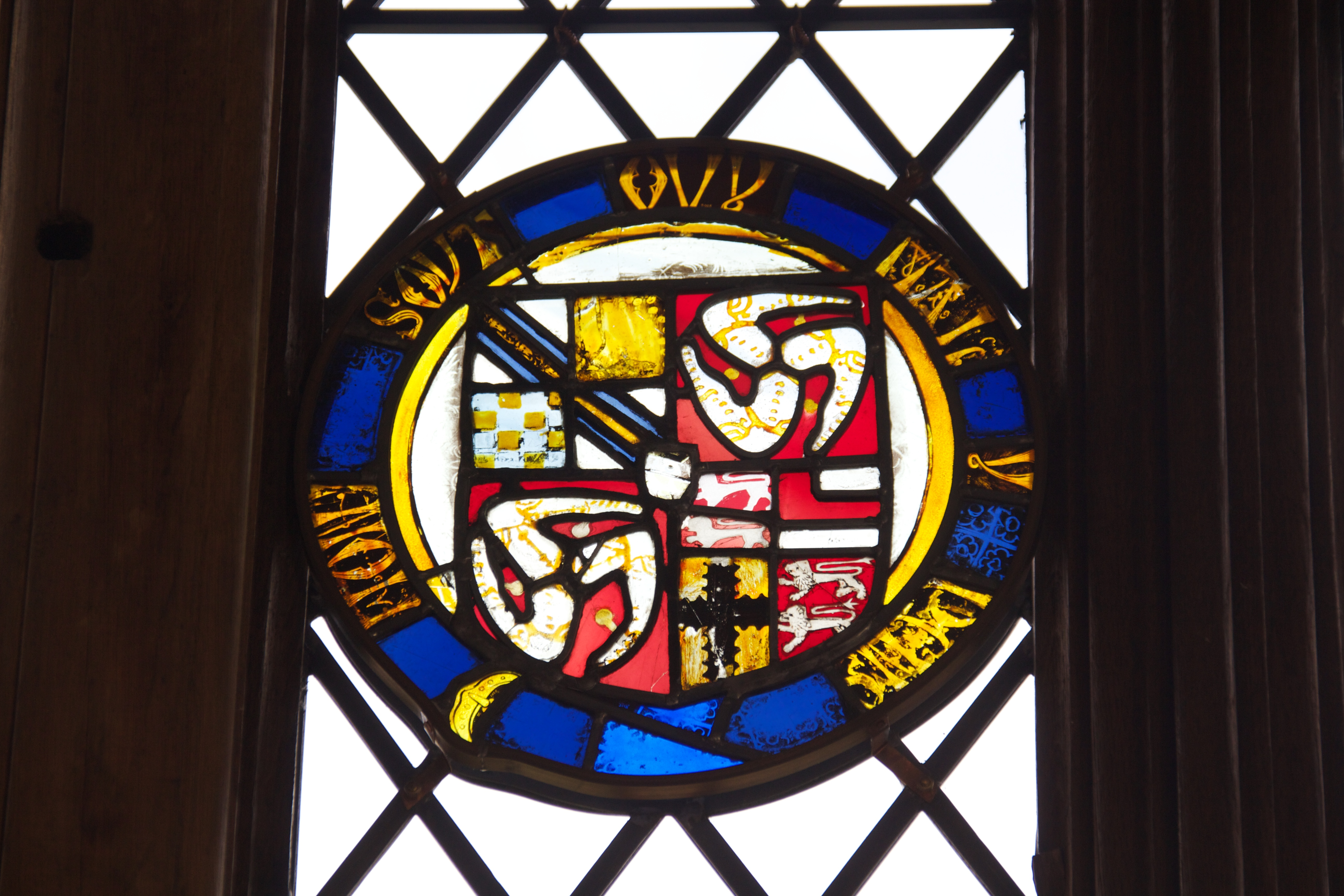 Stained glass at Ordsall Hall, Salford, Lancashire, possibly the arms of Thomas Stanley, 1st Earl of Derby (1435-1504), KG, showing the arms of Stanley, quarterly of four: 1st grand quarter: quarterly of 4: 1&4:Stanley; 2:Lathom (erased); 3: de Warenne, Earl of Surrey; 2nd & 3rd grand quarters: King of Man; 4th grand quarter: quarterly of 4: 1&4: Strange of Knockyn; 2: Woodville; 3: Mohun of Dunster Castle, Baron Mohun. With inescutcheon of pretence overall, erased, possibly Azure, a lion rampant argent, frequently shown in this position. (Per Fox-Davies, Arthur Charles, Complete Guide to Heraldry, 1909, referring to a similar Stanley shield: "The arms on the escutcheon of pretence .... seem difficult to account for unless they are a coat for Rivers or some other territorial lordship inherited from the Wydeville family. The full identification of the quarterings borne by Anthony, Lord Rivers, would probably help in determining the point". See File:Complete Guide to Heraldry Fig755.png) All circumscribed by the Garter.